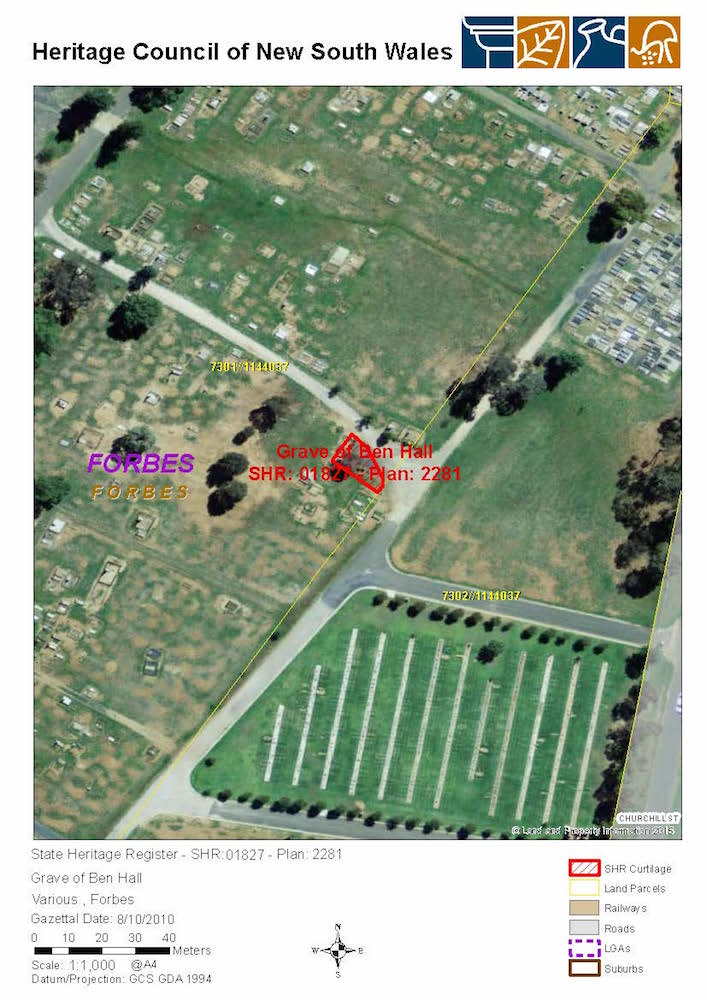 Grave of Ben Hall: SHR Plan 2281